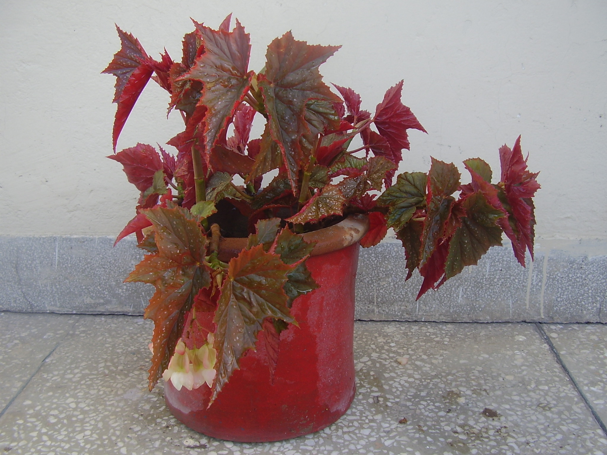 angelwing Begonia in a pot in my home.